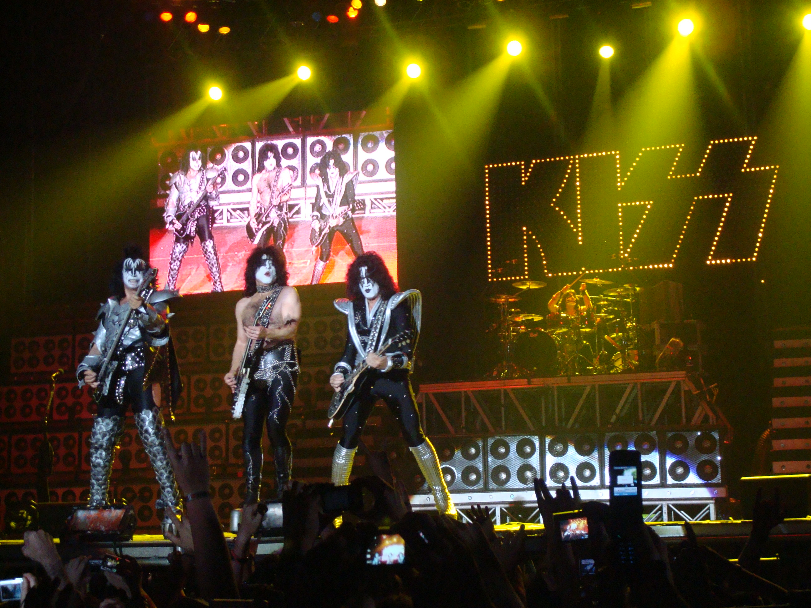 Kiss en Bilbao - Kobetasonik 2008